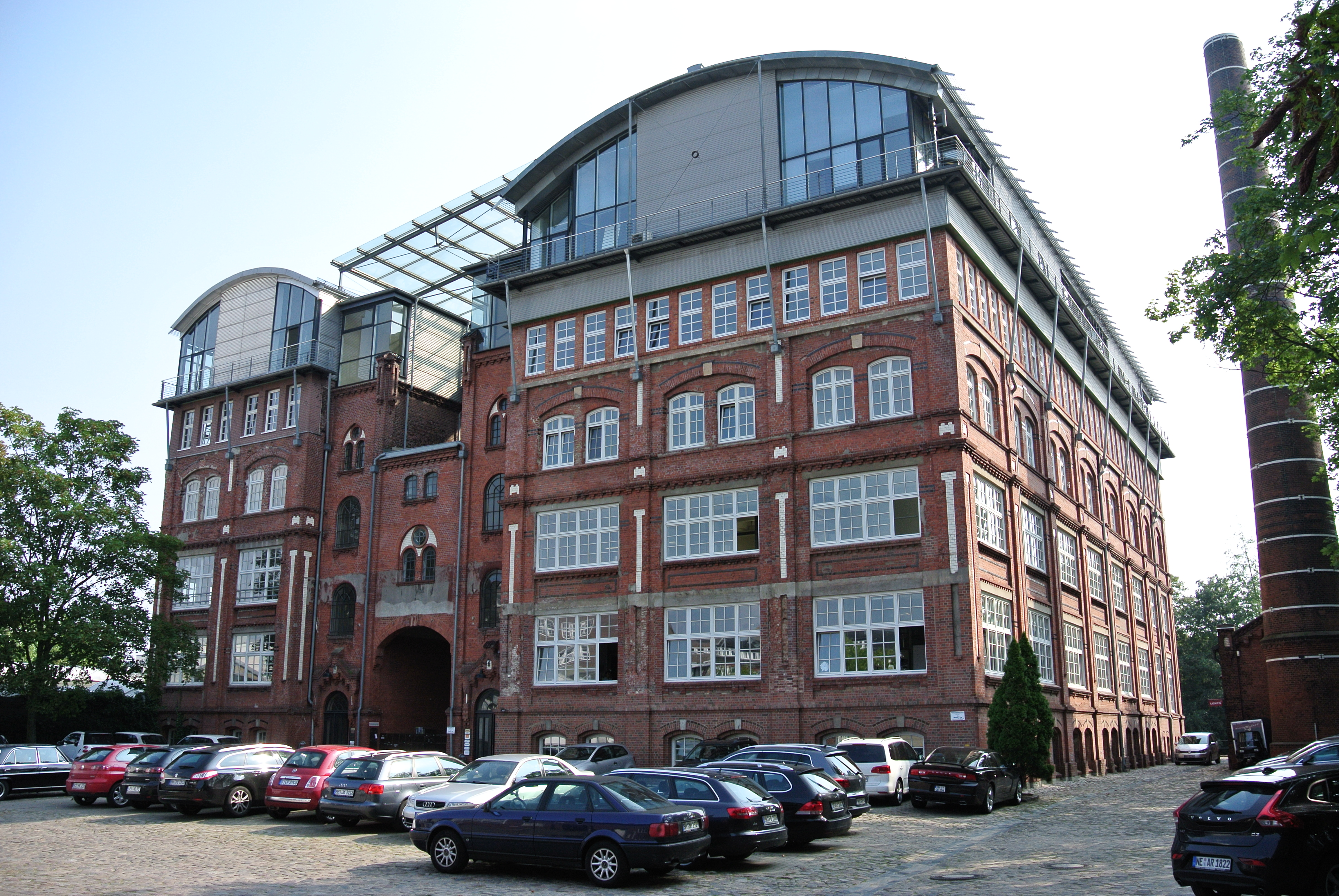 Chocolate factory from front with free-standing chimneyThis is a photograph of an architectural monument.